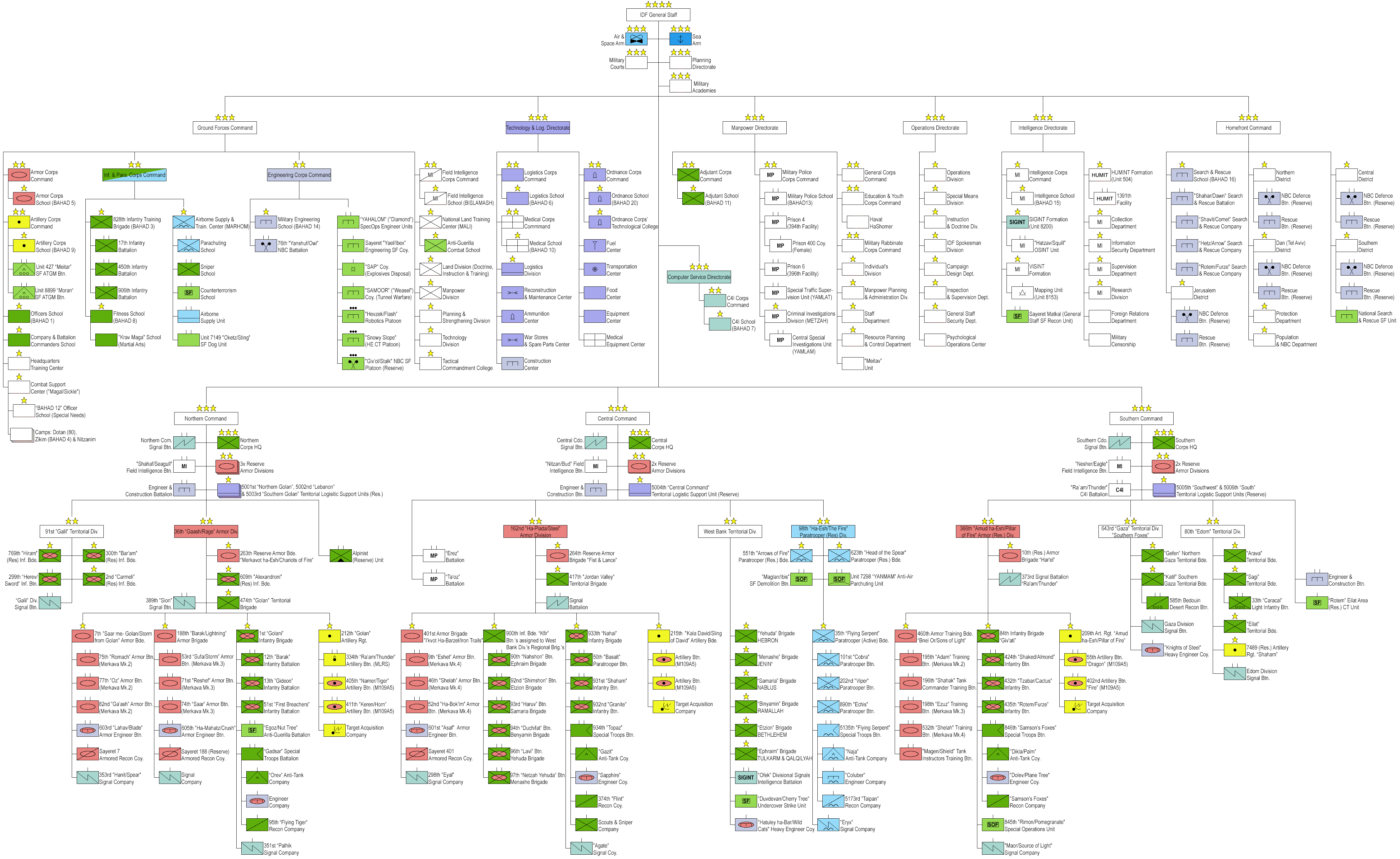 Structure of the known Order of Battle of the Israel Defense Forces Ground Forces.